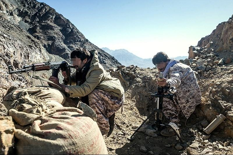 IRGC Ground Force Commandos in Pictures - TEHRAN (Tasnim) – Special unit of the Islamic Revolutionary Guard Corps (IRGC) Ground Force include skillful handpicked members.